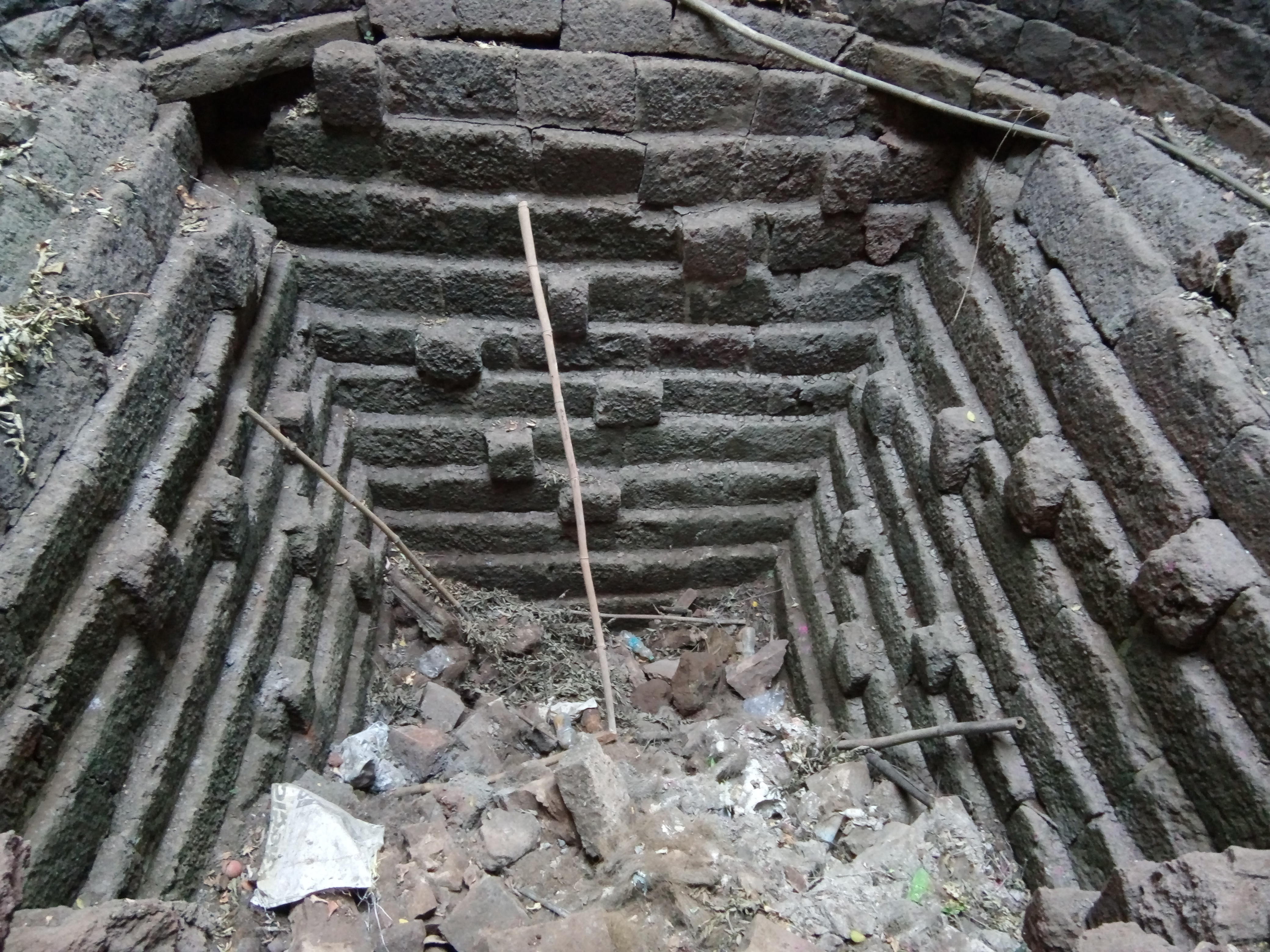 Steps in well